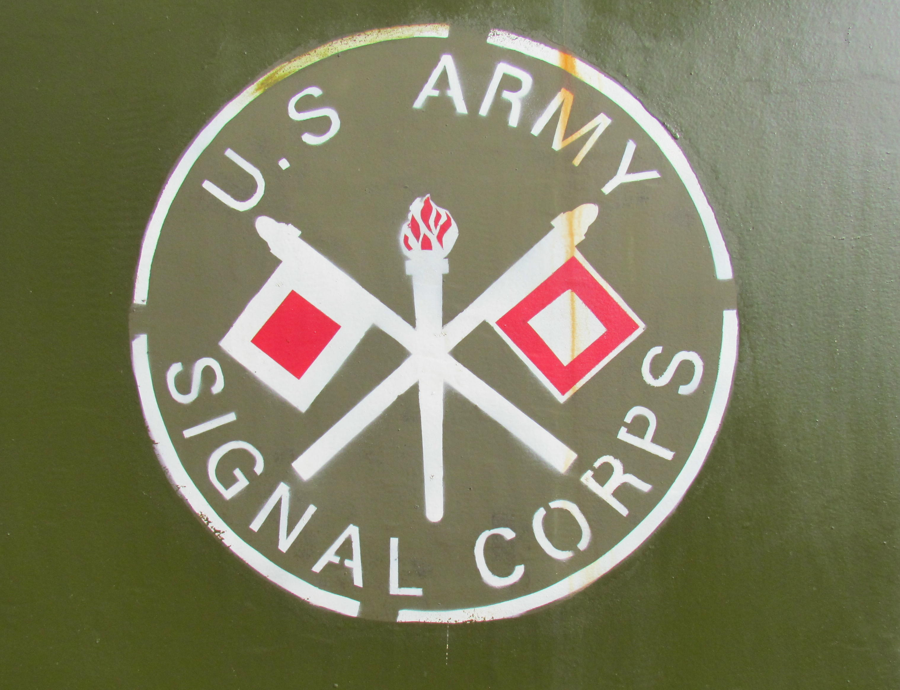 Sign Village at War Weekend 2012, Stoke Bruerne, Northamptonshire